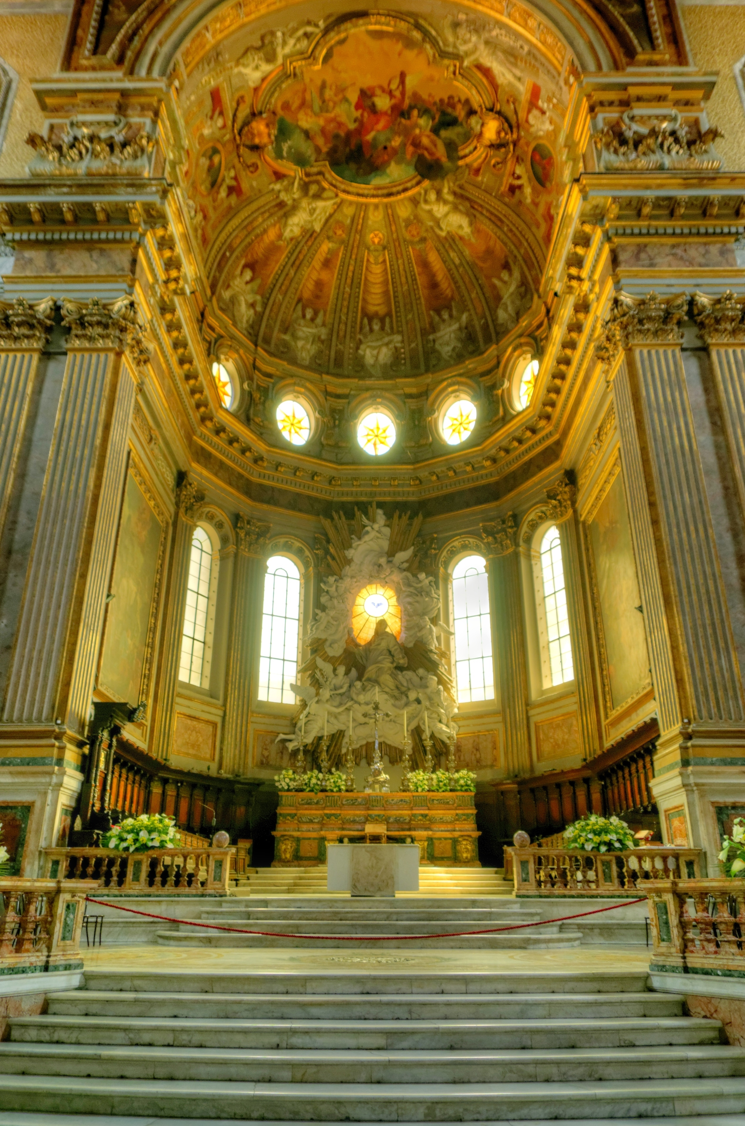 Naples, cathedral